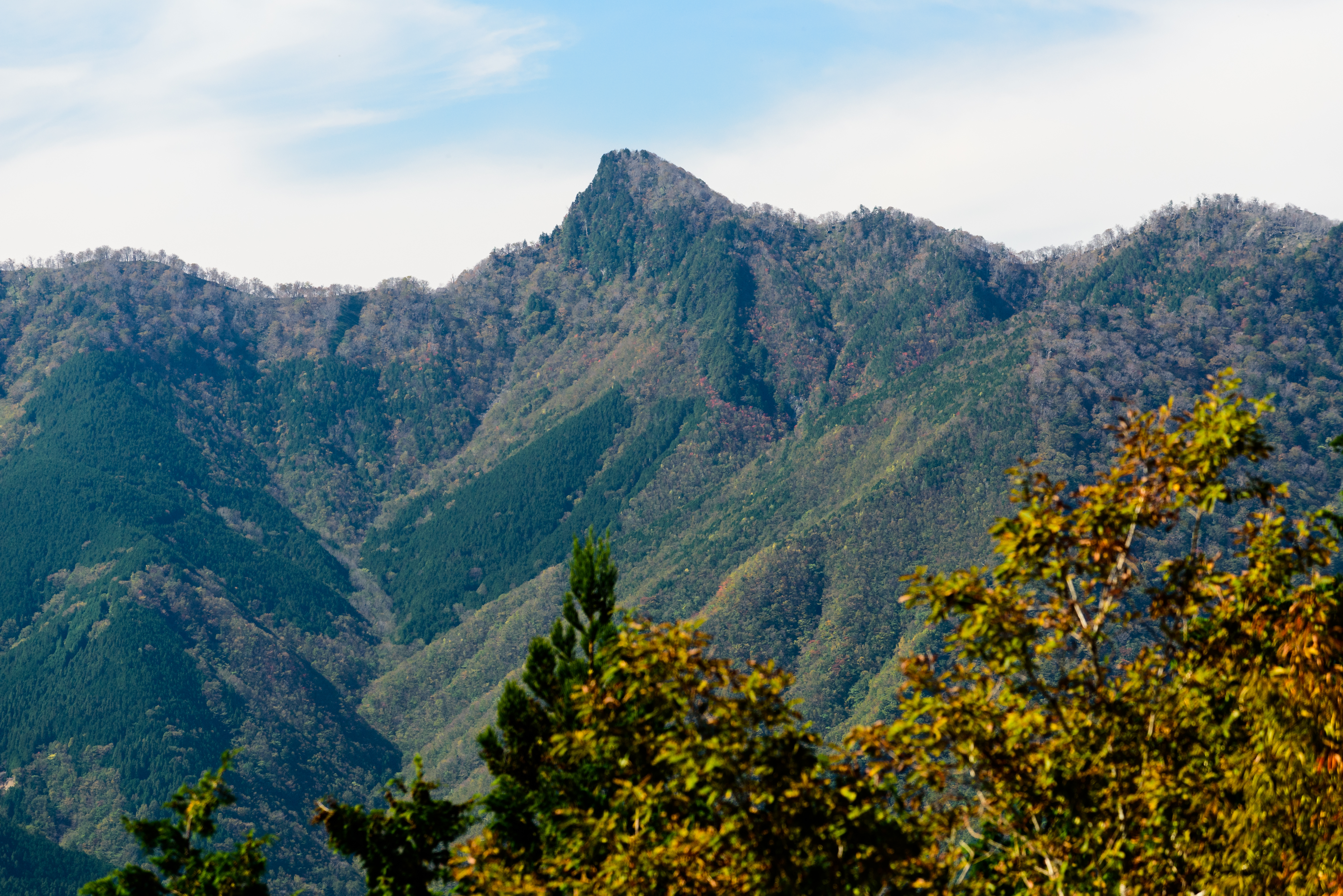 Mount Gyojagaeri (1,546 metres) from Nishihara, Kamikitayama, Nara.